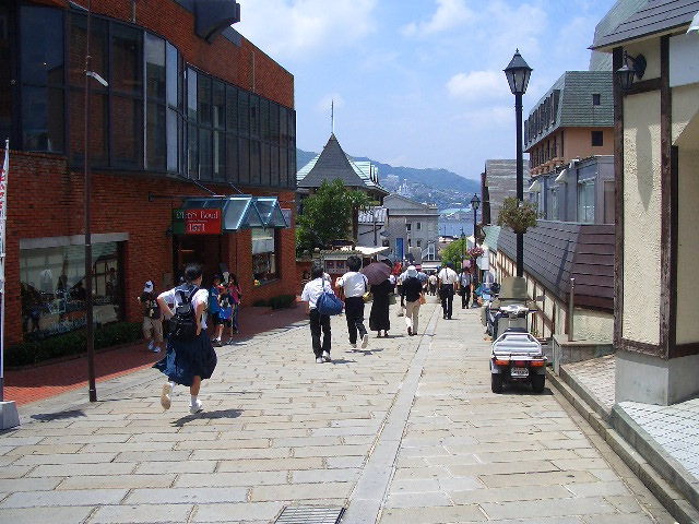 Modern day Nagasaki. The slope going down from Oura Tenshudo Church, Nagasaki City, Japan.